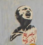 Ahmad douma graphiti